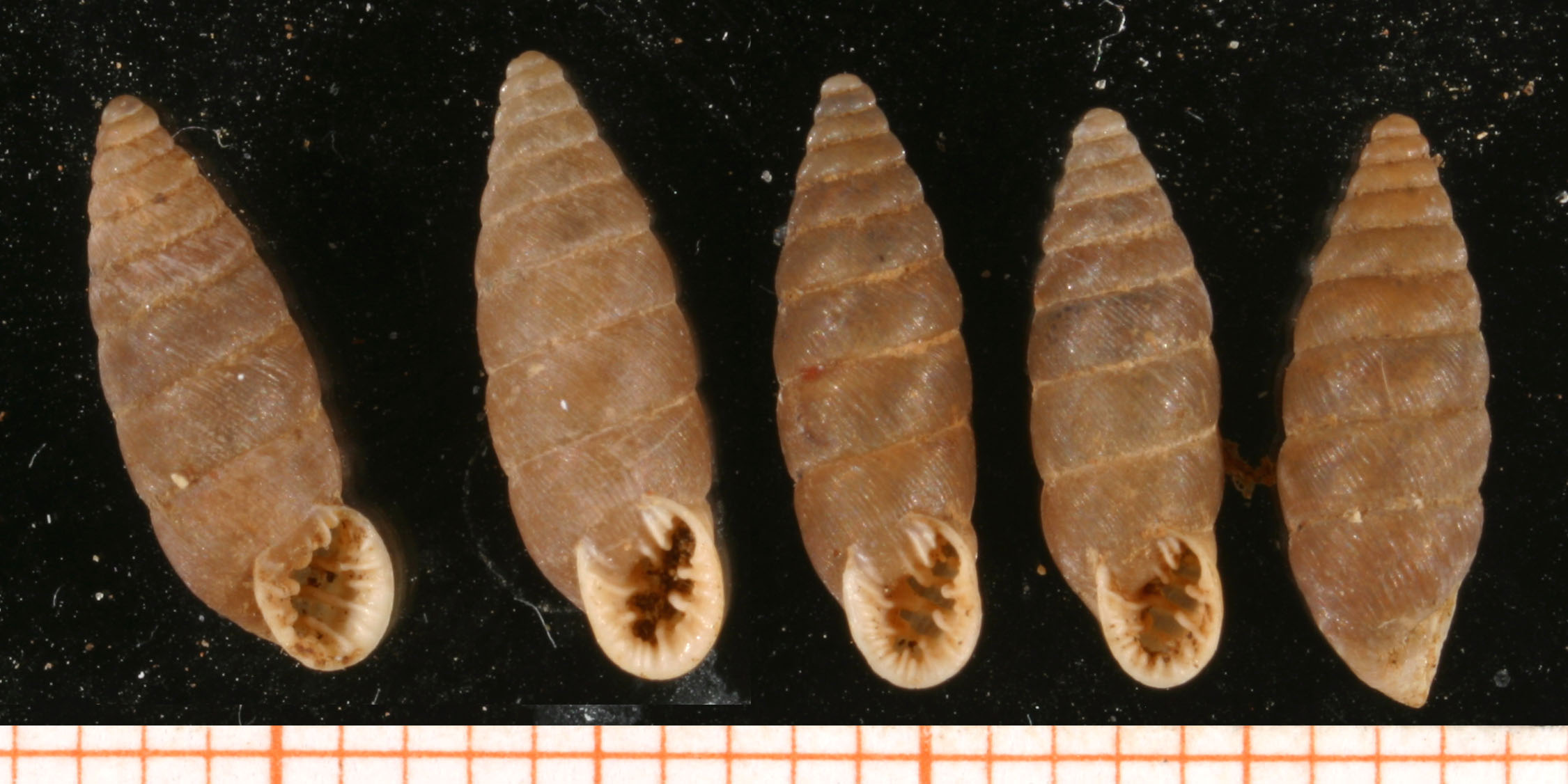 Abida polyodon (Draparnaud, 1801), Chondrinidae, Pulmonata, Gastropoda, Locality: Spain, Eastern Pyrenees